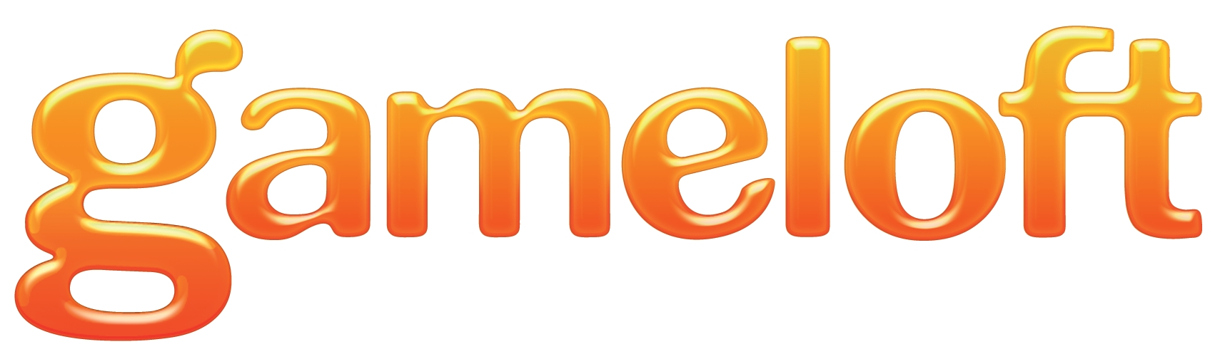 Gameloft 2008 corporate logo